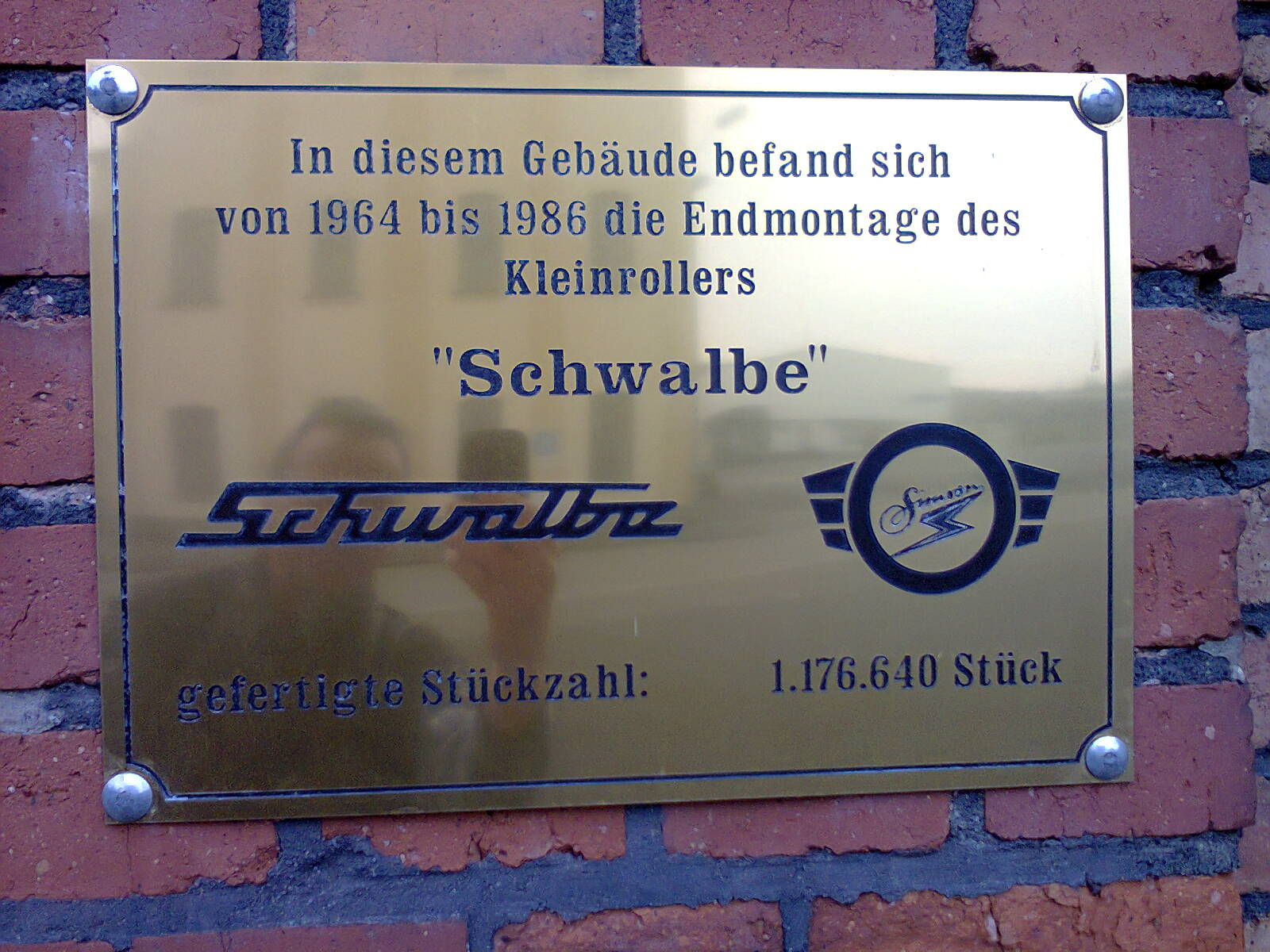 Gewerbepark Simson